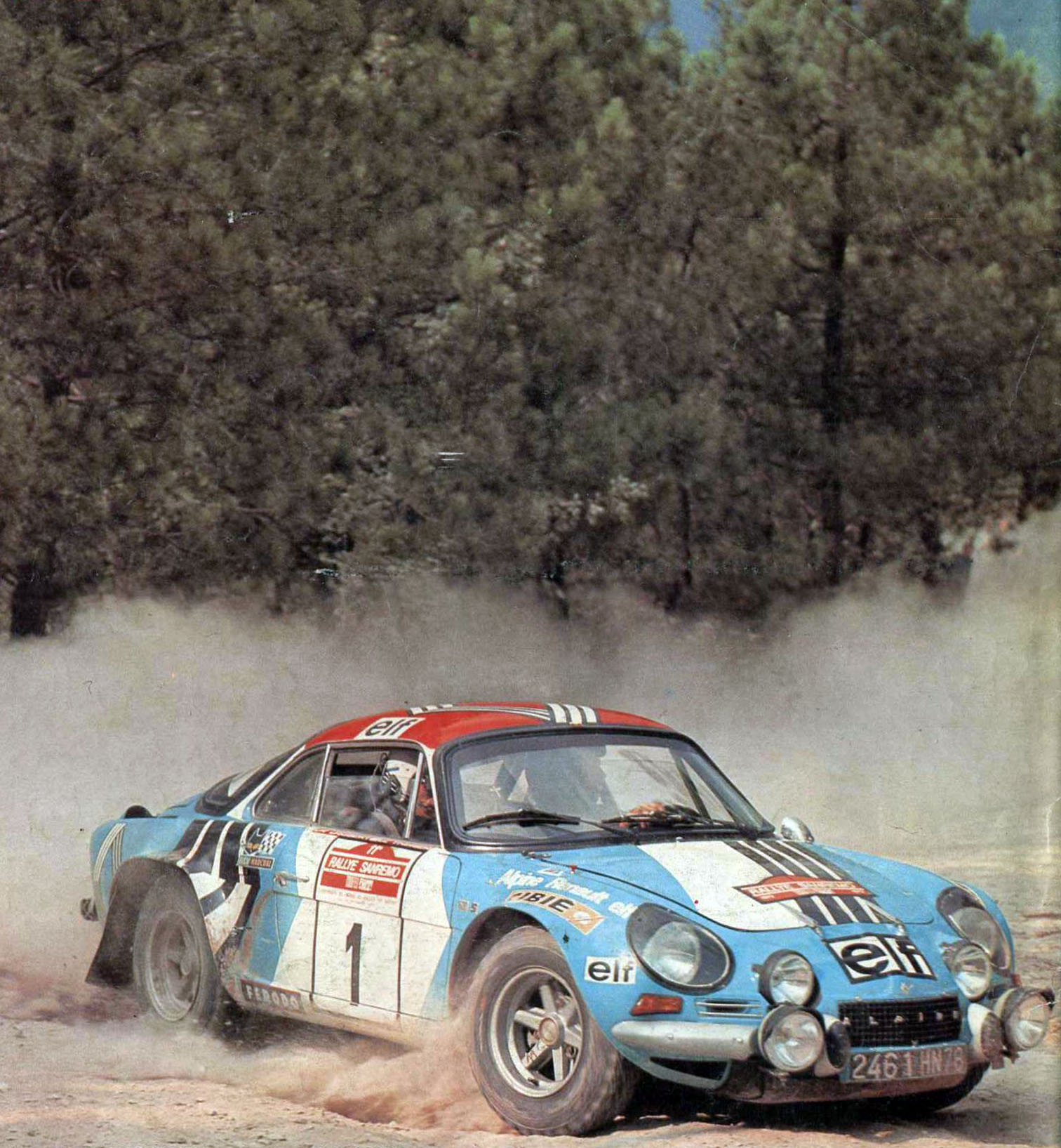 French rally driver Jean-Luc Thérier and his co-driver Jacques Jaubert on an Alpine-Renault A110 1800 (Group 4) sponsored Elf Aquitaine at the 1973 Rallye Sanremo.